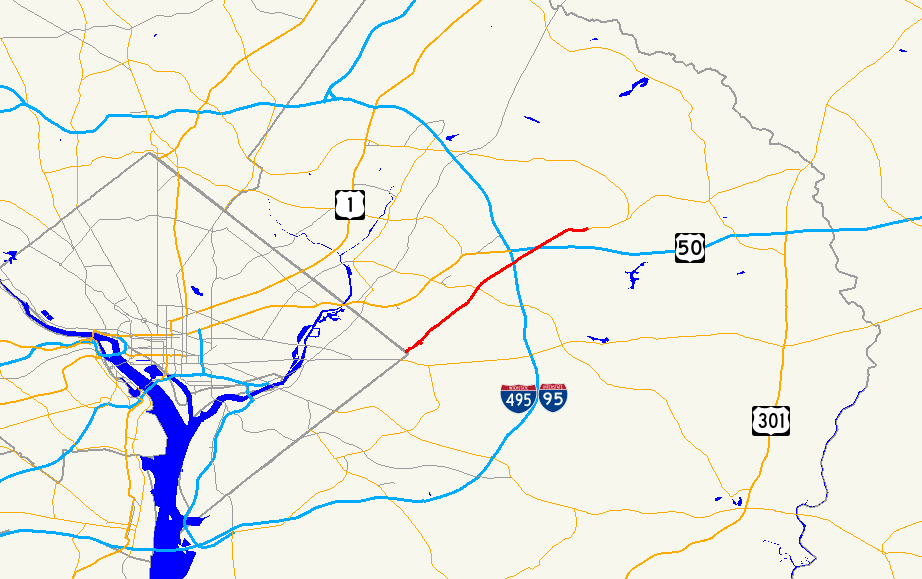 Map of Maryland Route 704